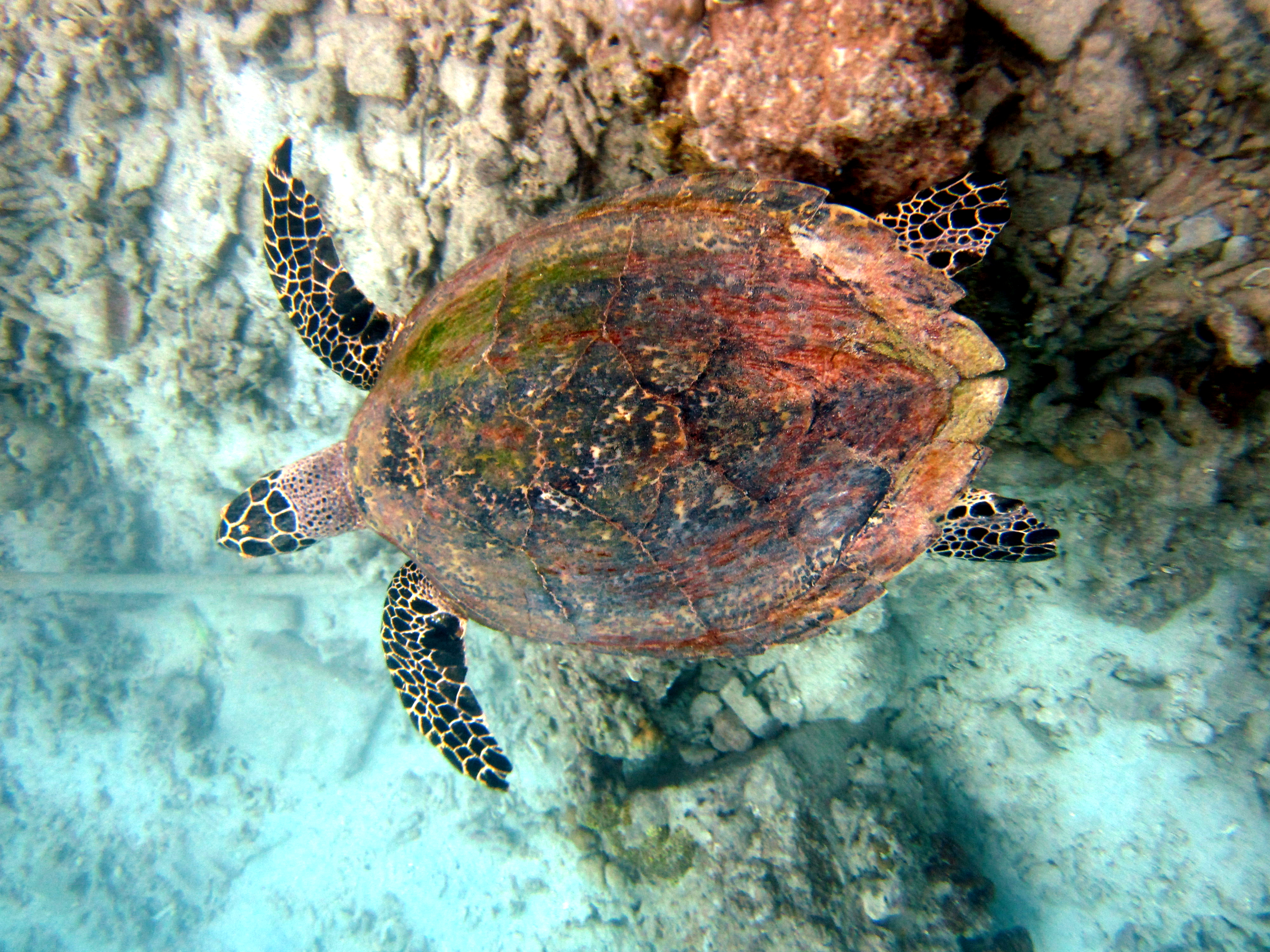 Eretmochelys imbricata or penyu sisik in Indonesian language is one of the salt water reptile. It's become endangered species because over hunting for its egg or the mature one..